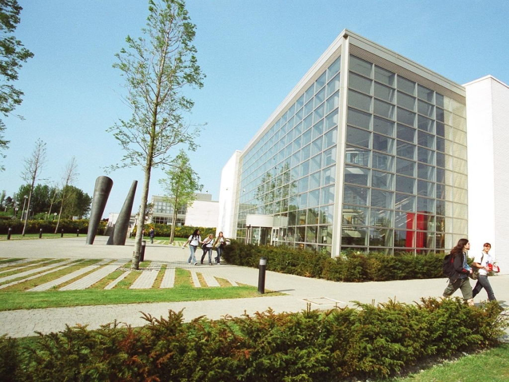 One of the photos we took for inclusion in the DkIT wallpaper pack, which can be downloaded freely at